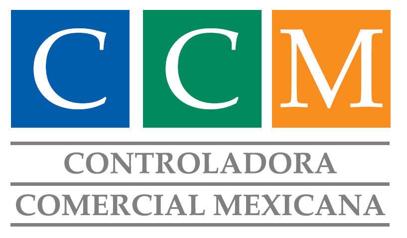 Logo of the Mexican hypermarket group Controladora Comercial Mexicana